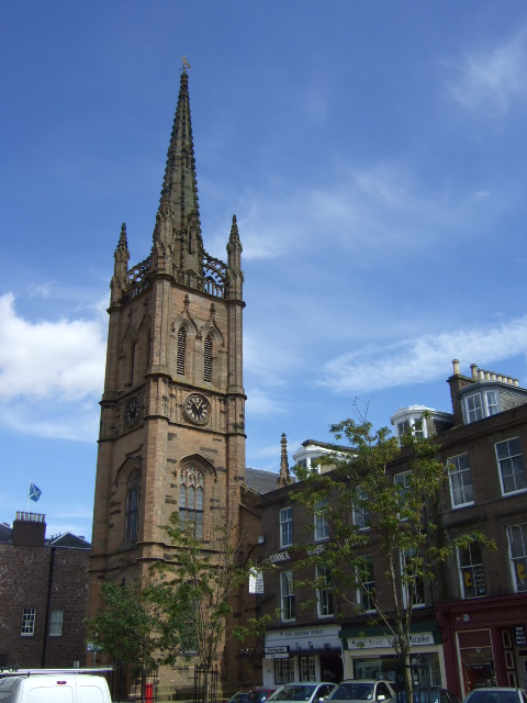 Church of Scotland 'Old and St Andrew's' Montrose town centre.